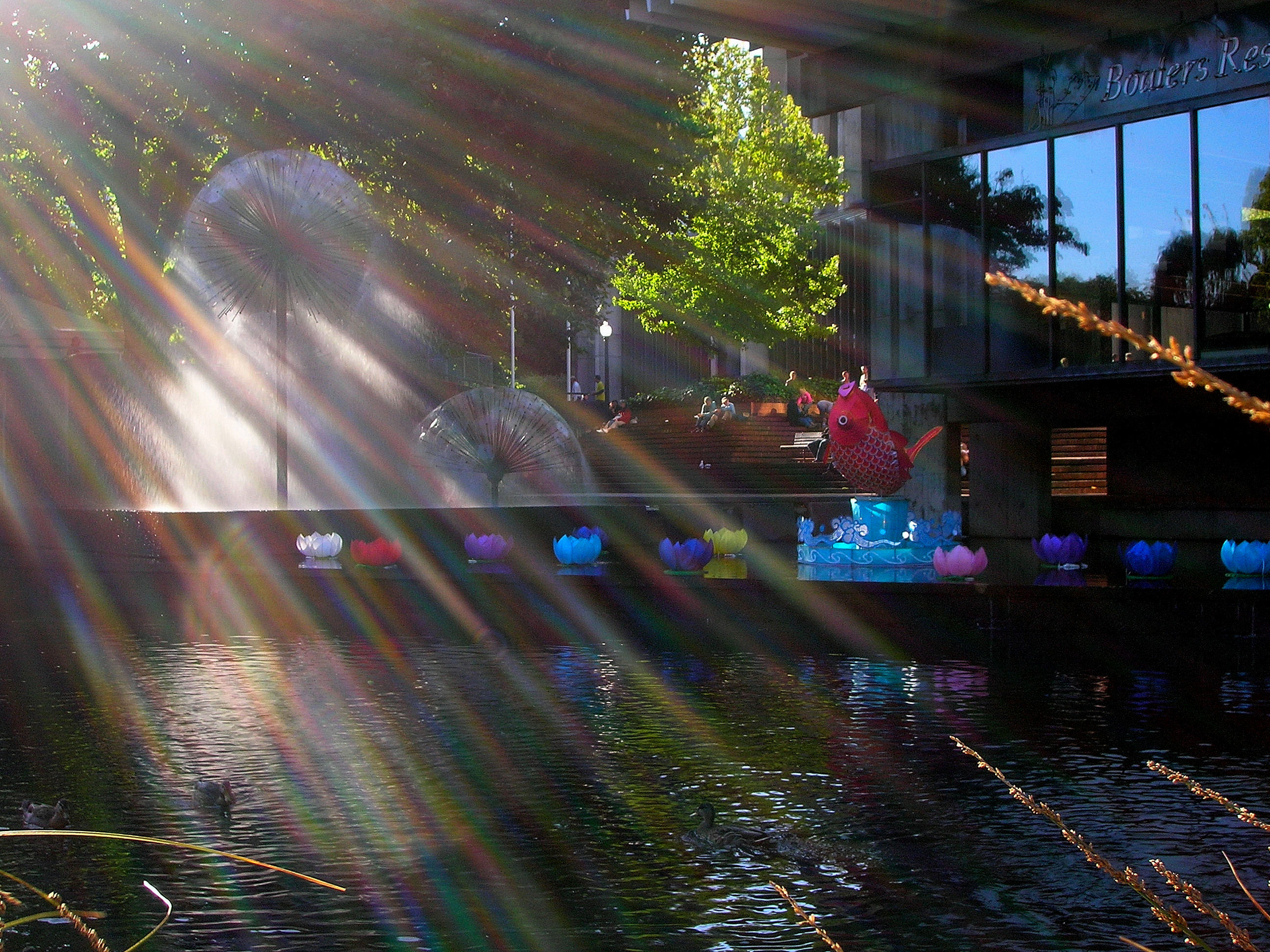 Christchurch Town Hall; Chinese Lantern Festival at Victoria Square, Christchurch (Sat 14-2-2009).